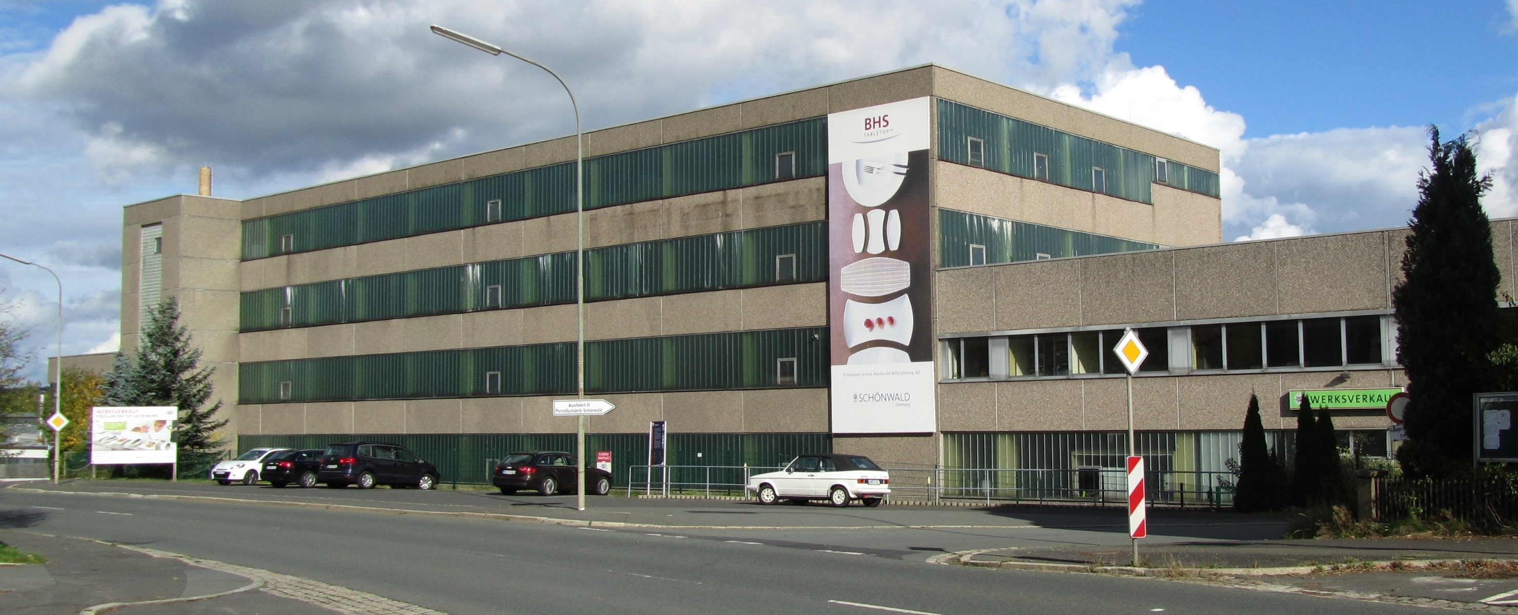 Southern part of the porcelain factory of Schönwald